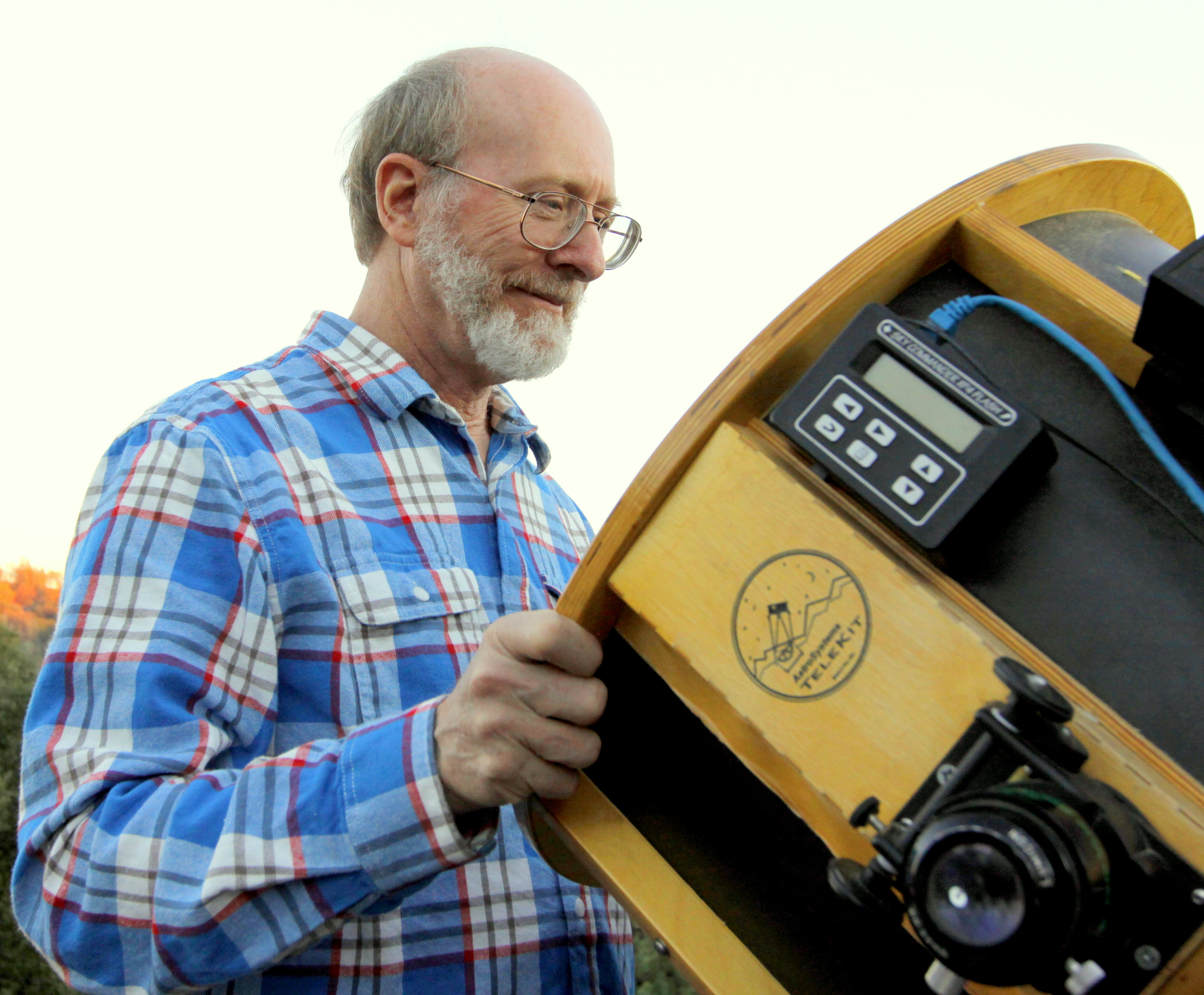 Astronomer, visual discoverer of comets examines his 18" reflector telescope